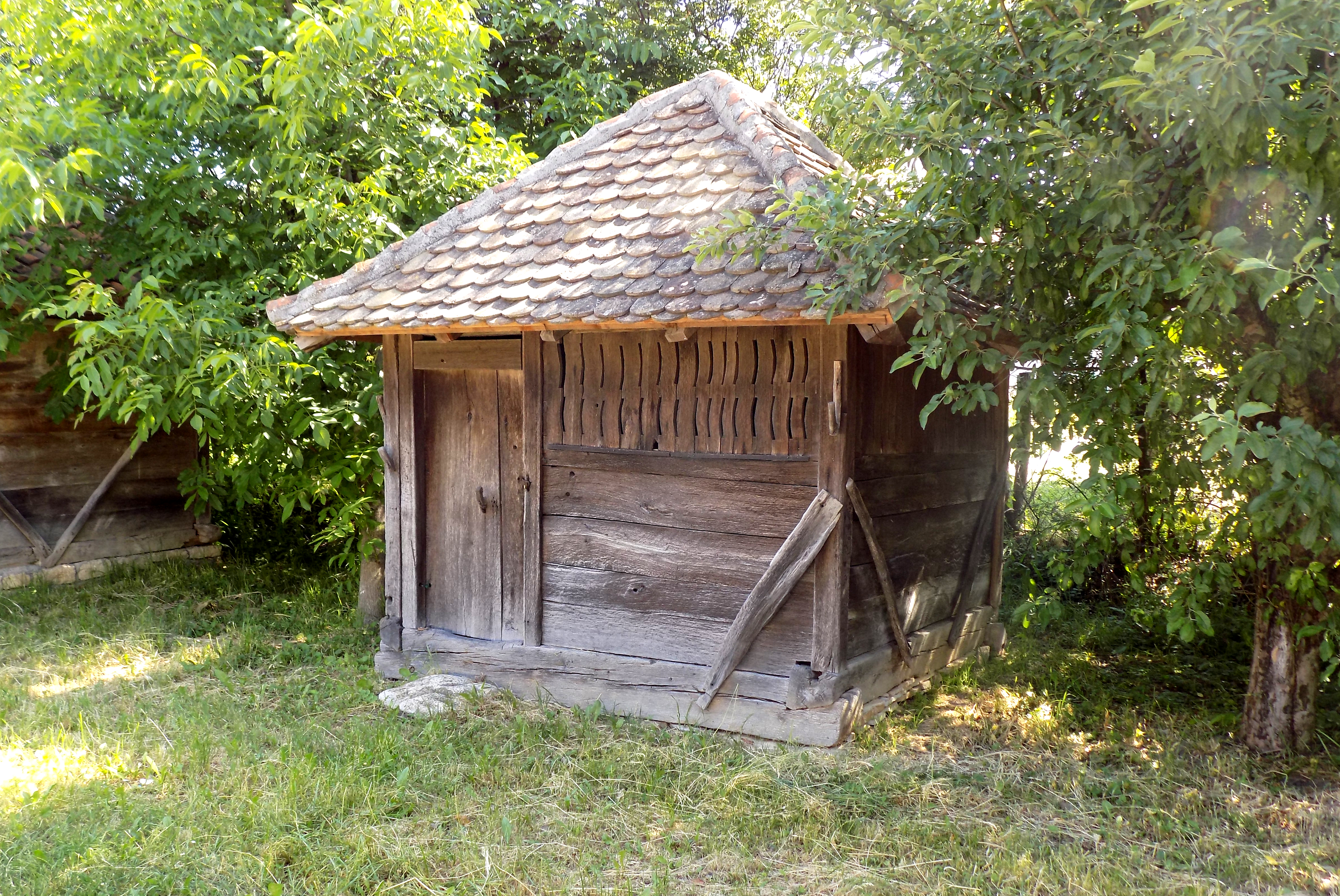 House of the Matic family - Agricultural facilities in the backyard